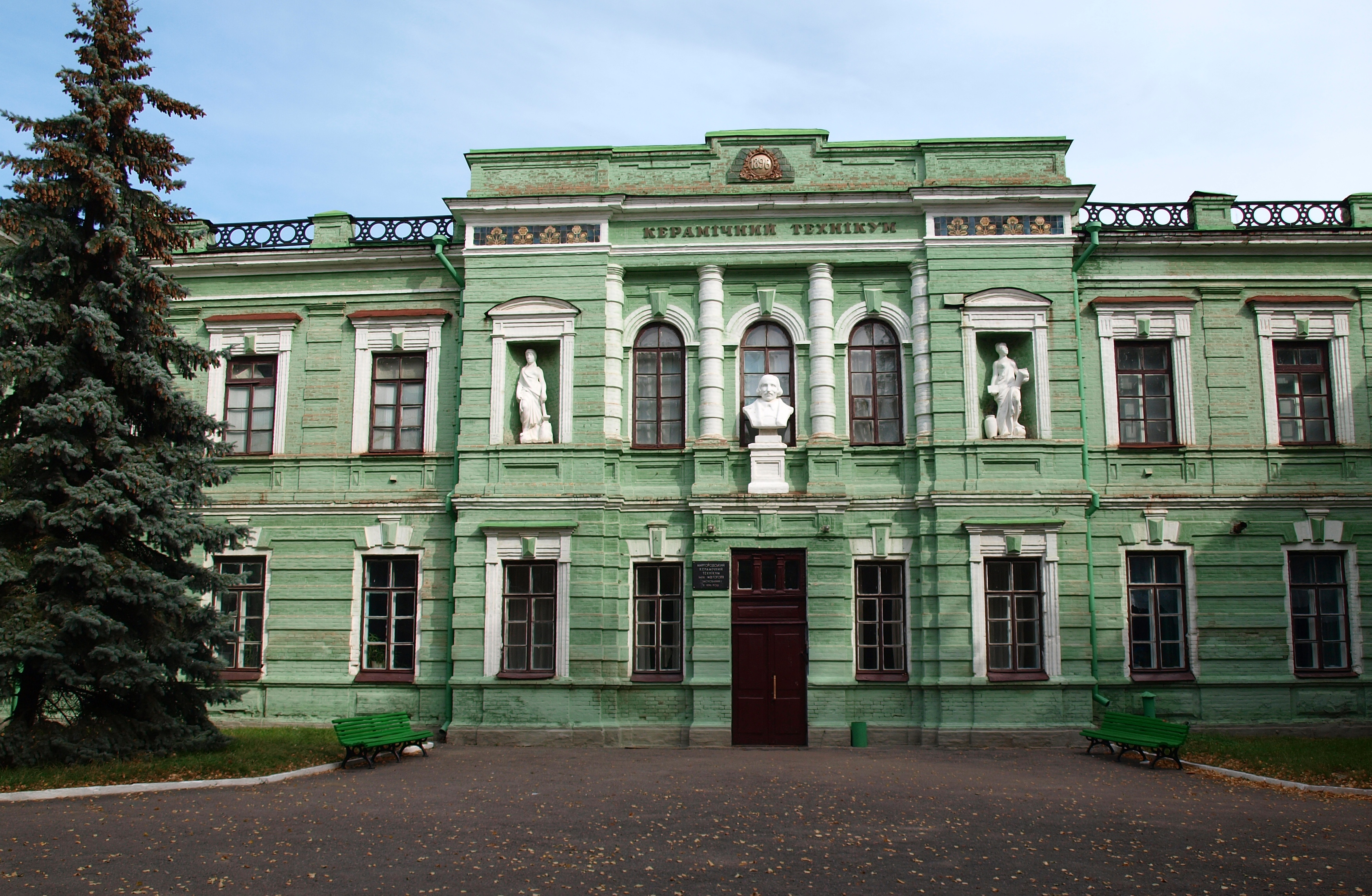 Myrhorod